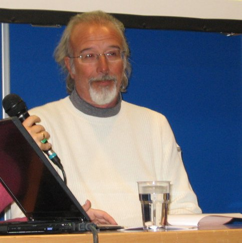 Giorgio Cavazzano, Italian comic artist, at the Helsinki Book Fair in 2007.